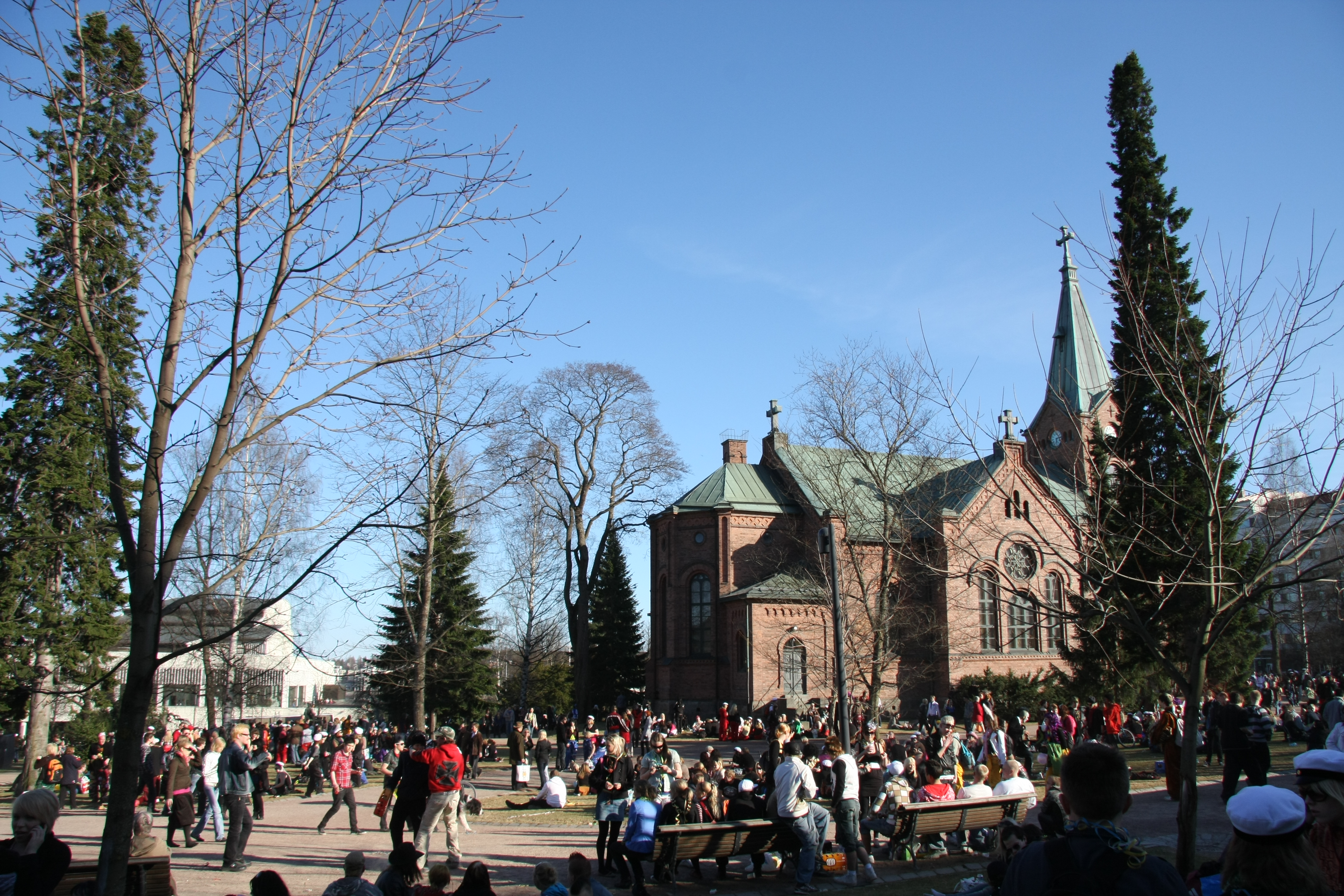 Jyväskylä's Kirkkopuisto at the Labour's day eve in 2009 (Finland).